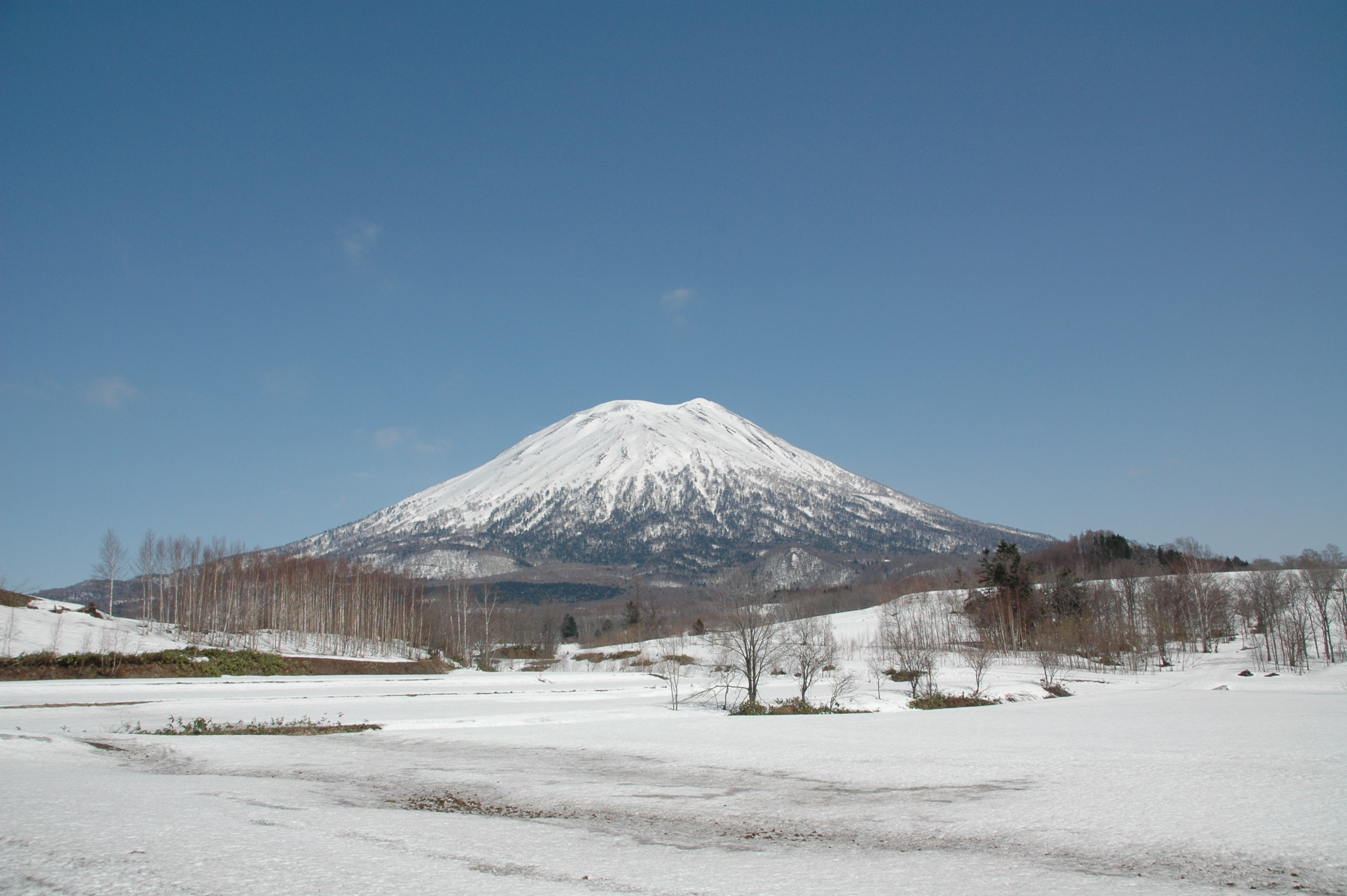 Mount Youtei seen from the WSW, in Hokkaido, Japan